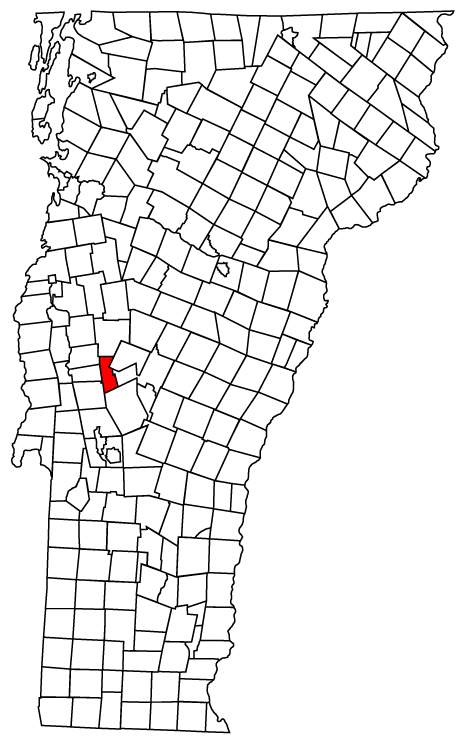 Description: Map of Vermont towns with Goshen highlighted Source: Map created by Jared C. Benedict on 26 March 2004. Copyright: © Jared C. Benedict.